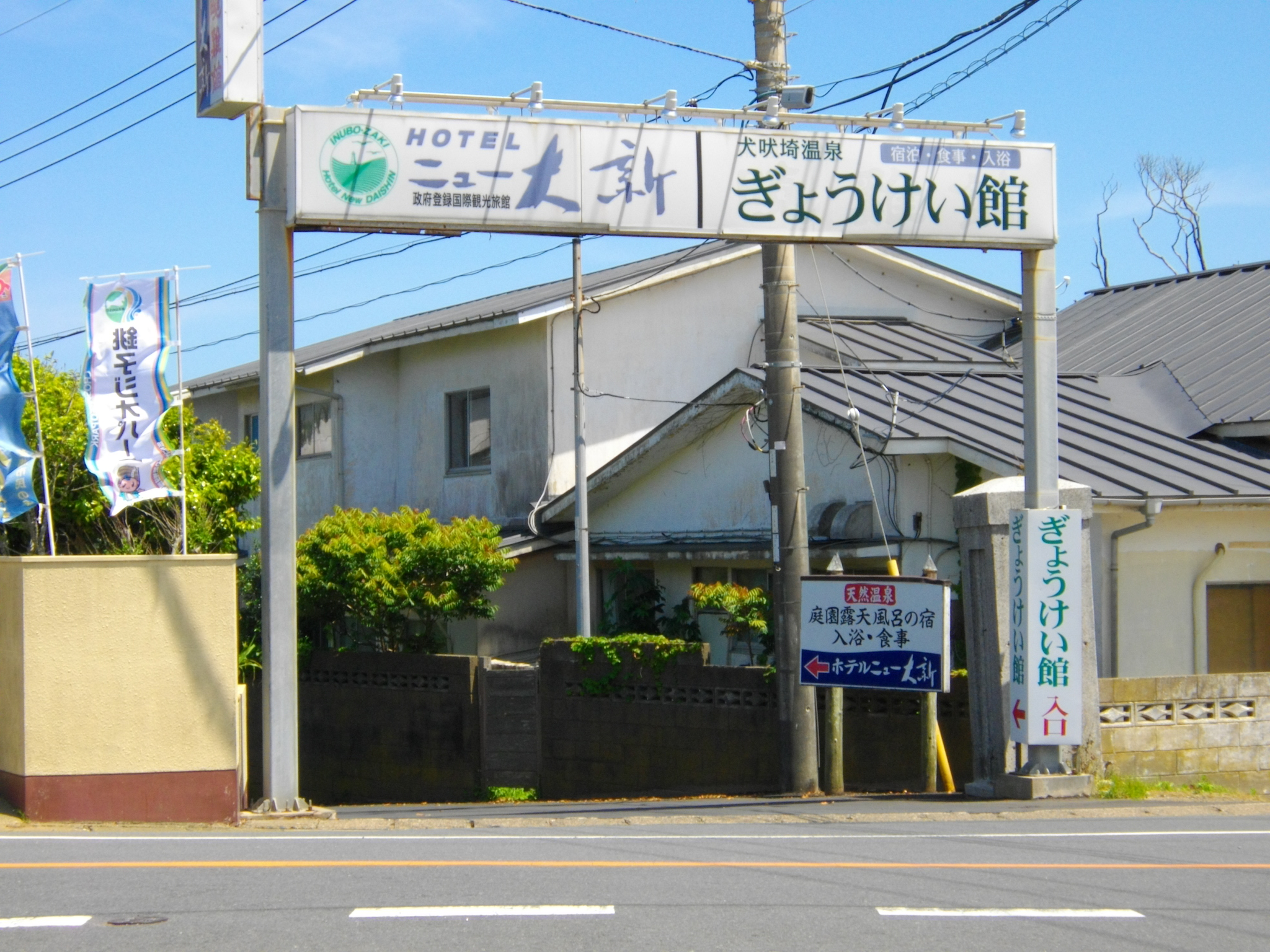 Entrance to Inubosaki Onsen